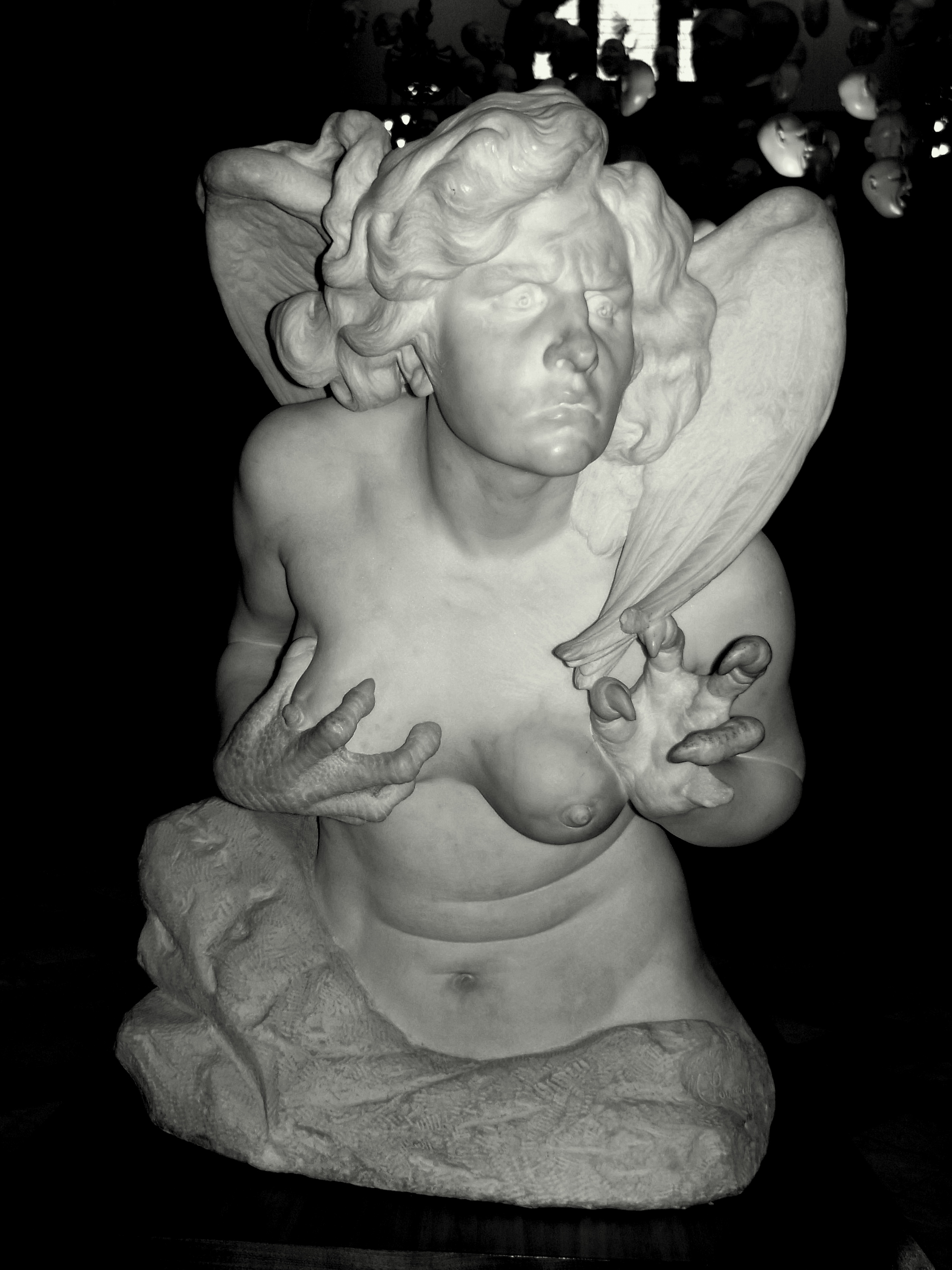 Glasgow. Kelvingrove Art Gallery and Museum. Mary Pownall (1862-1937), The Harpy Celaeno, marble, 1902.